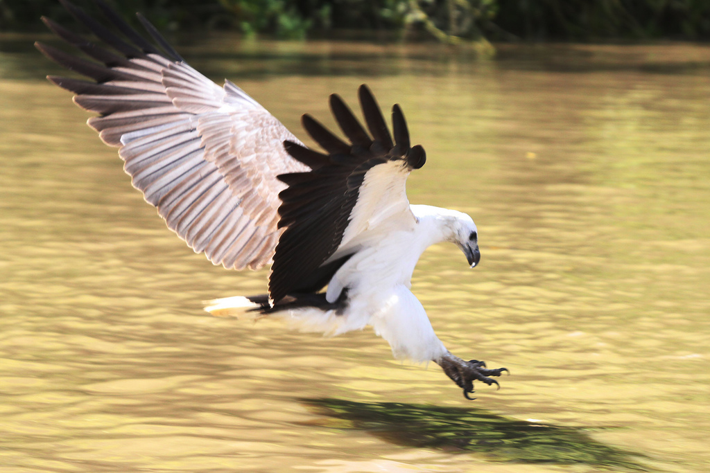 White-bellied Sea Eagle diving on prey